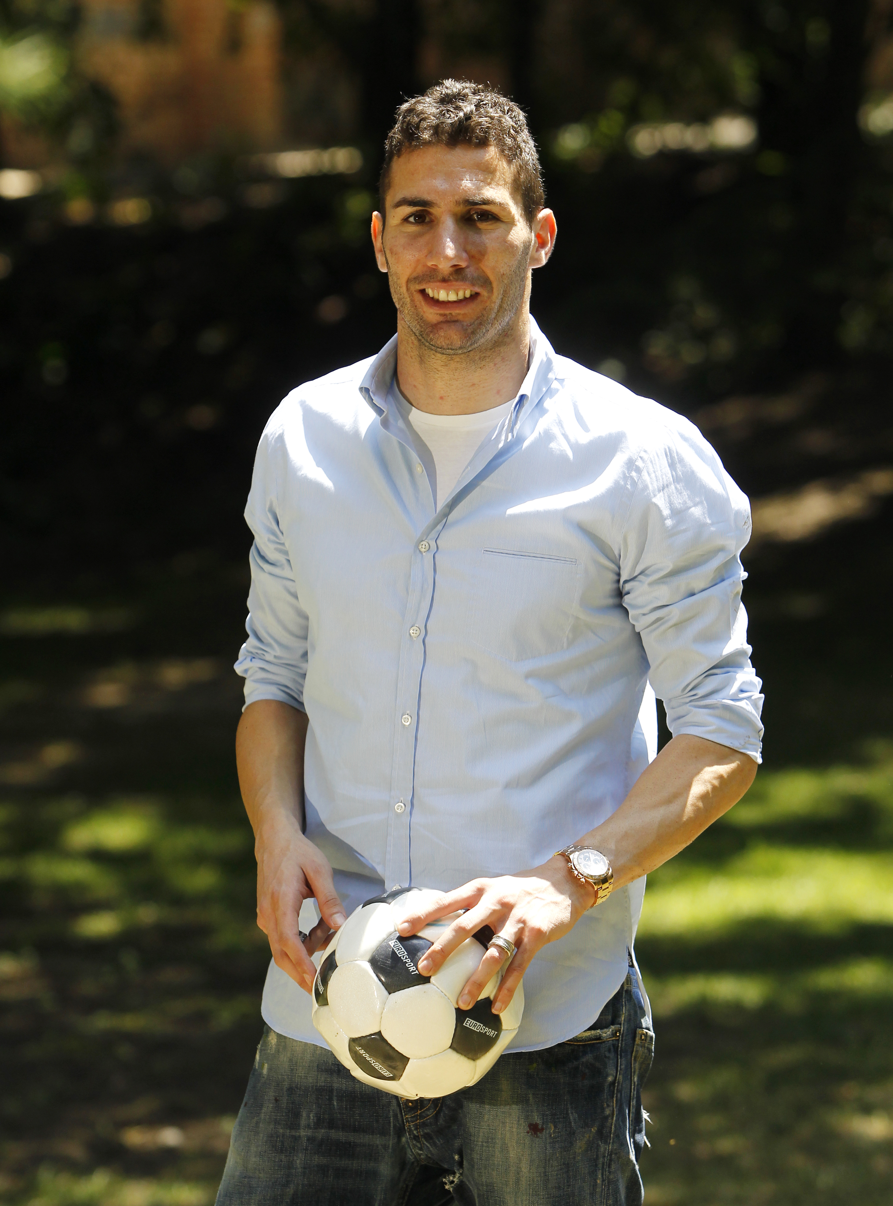 Carlos Cuellar